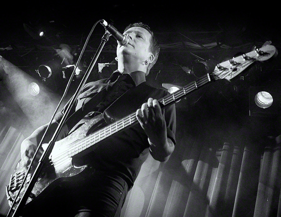 Frank Hammersland performs at a concert with Pogo Pops at Parkteatret in Oslo. Lineup: Frank Hammersland (bass and vocal) Viggo Krüger (guitar) Nikolai Hamre (drums)